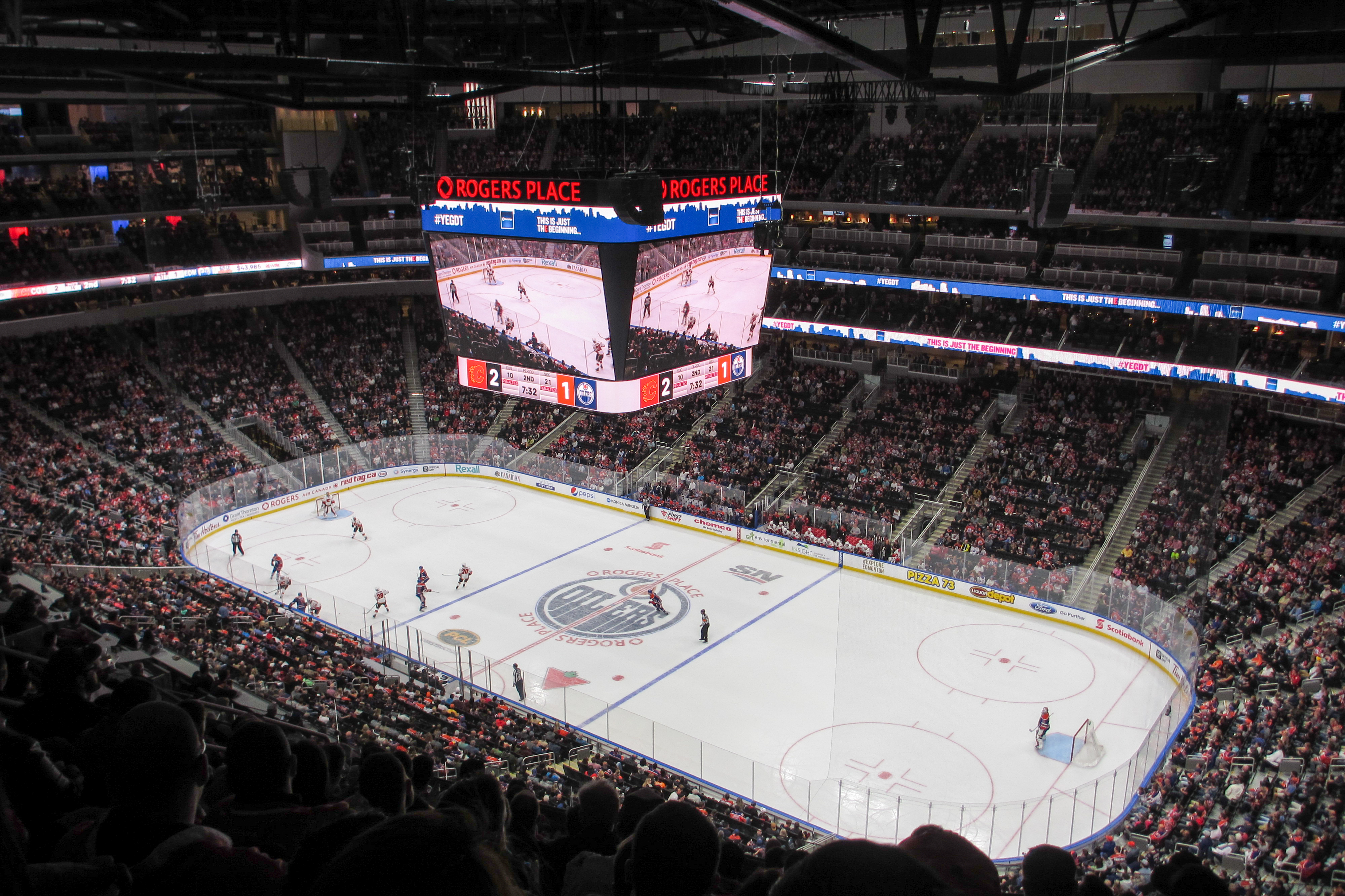 The first pre-season game for the Edmonton Oilers at Rogers Place.